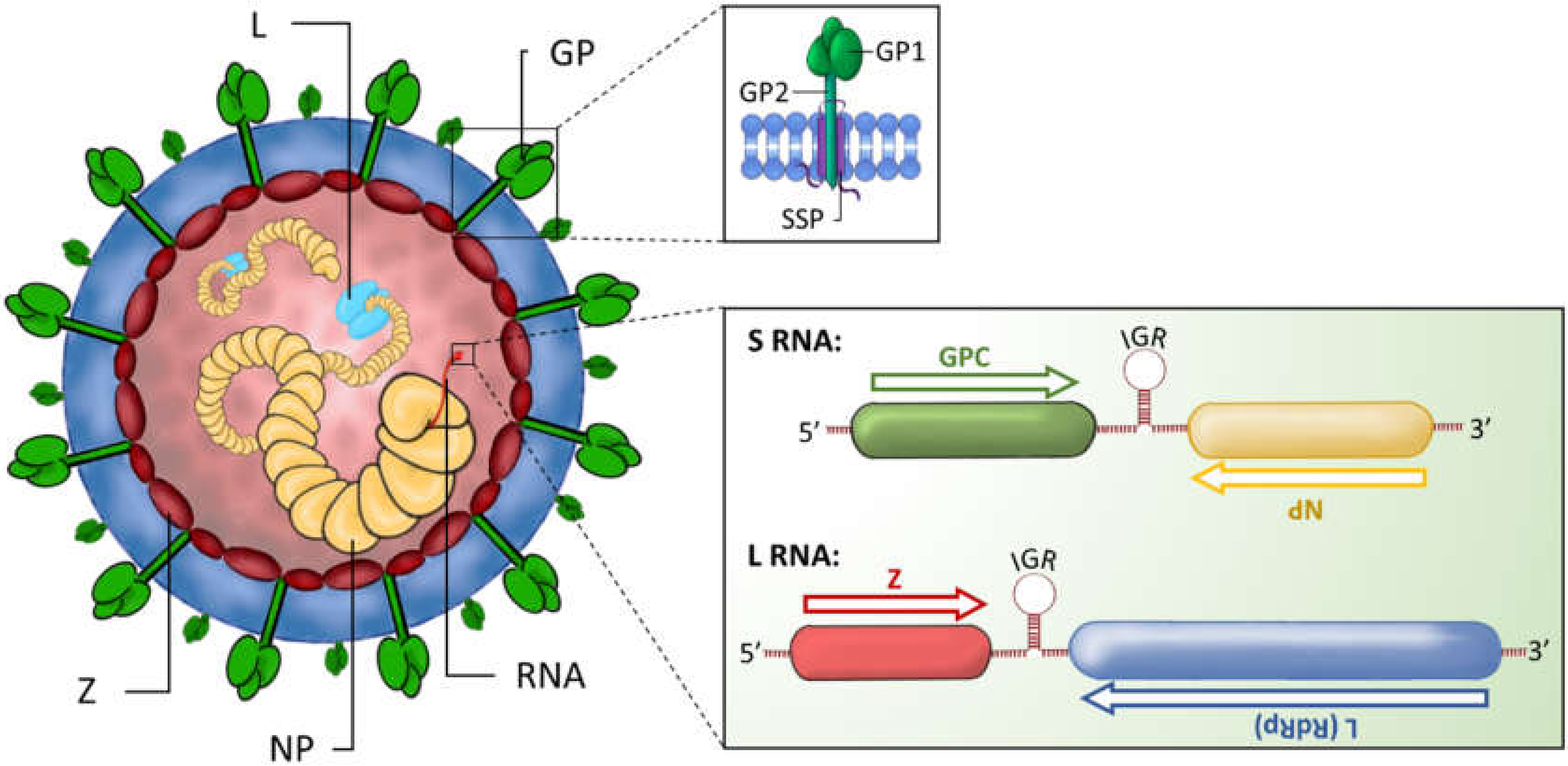 Mammarenavirus structure and genome composition. Mammarenaviruses have a spherical, enveloped structure. The outer surface contains the glycoprotein spike complex GP consisting of the subunits GP1, GP2 and SSP (inset) involved in receptor binding and host cell entry. Within the enveloped structure the small zinc finger matrix protein (Z) encloses the nucleocapsid which is formed of the nucleoprotein (NP) surrounding the small (S) and large (L) RNA segments, and the RNA-dependent RNA polymerase (RdRp) L protein. Mammarenaviruses possess a bi-segmented single-stranded RNA genome. Both RNA segments comprise two open reading frames (ORFs) that are separated by non-coding intergenic regions (IGR) and involved in RNA transcription termination. The S RNA segment encodes the glycoprotein precursor (GPC) and the NP, whereas the L RNA segment encodes the Z protein and the L RNA-dependent RNA polymerase.